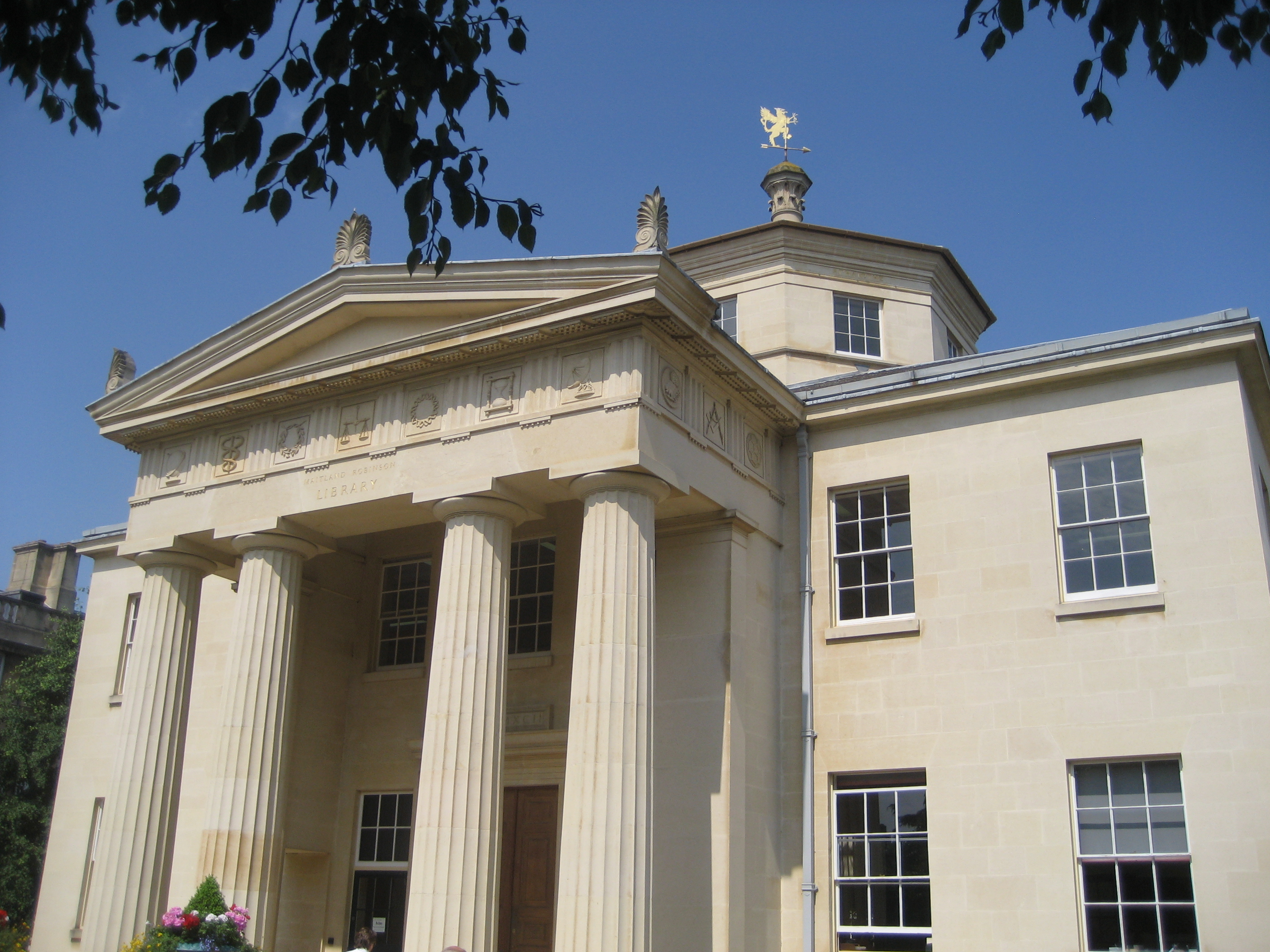 The Maitland Robinson Library by Quinlan Terry, Downing College, Cambridge, England (United Kingdom)